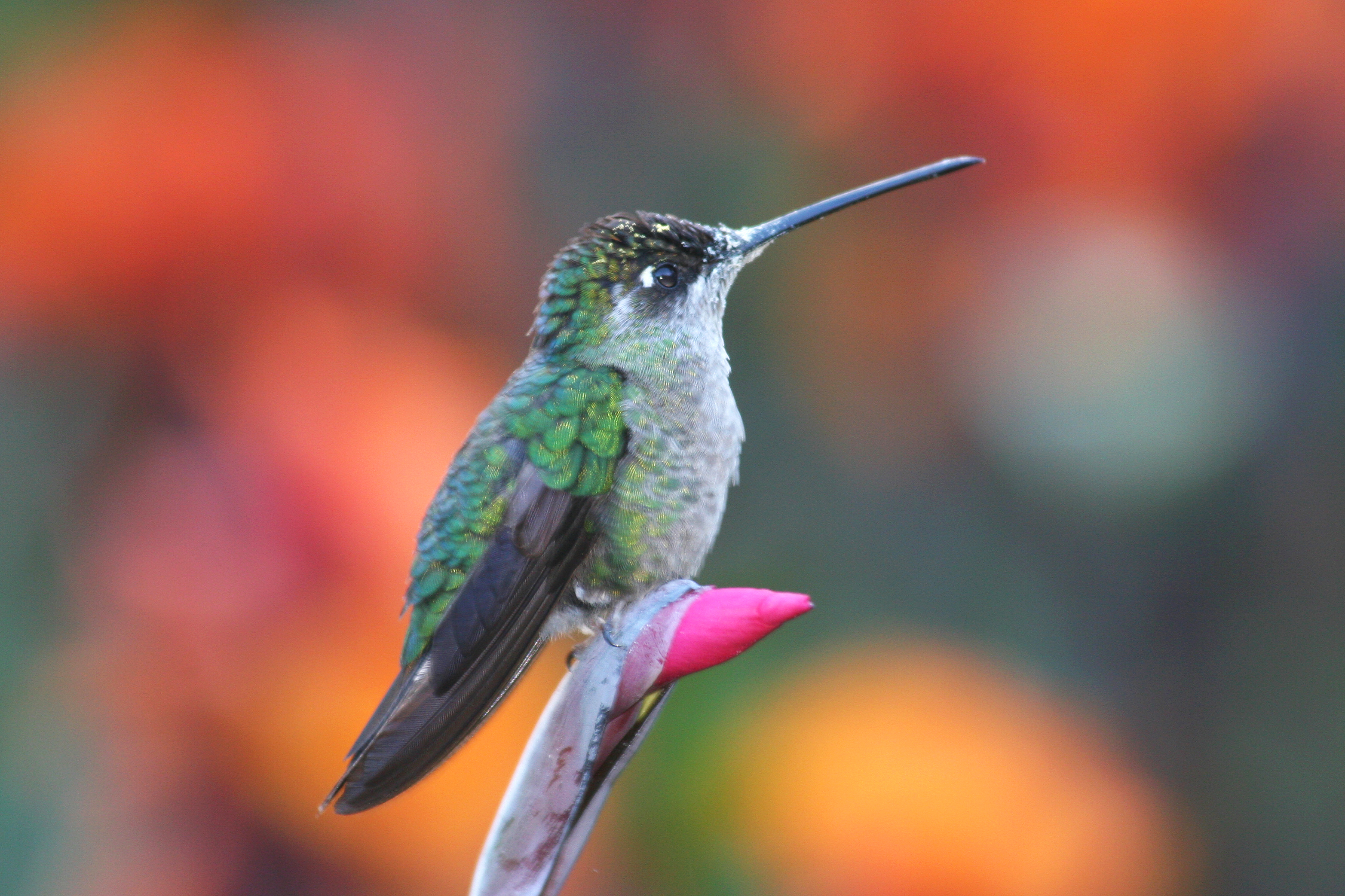 Female Magnificent Hummingbird taken At the Savegre Mountain Hotel in Costa Rica